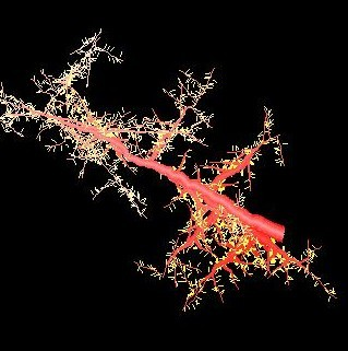 Fractal branching pattern modeled with MicroMod (author's software, freely available).